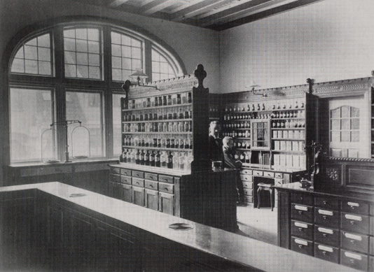 Interior of Roskilde Svane Apothek (Swan Pharmacy of Roskilde) in Roskilde, Denmark, 1899, representative of the Skønvirke style.